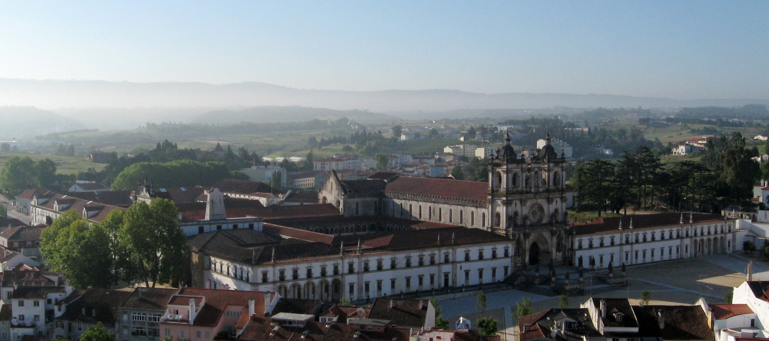 Alcobaça, Portugal, Mosteiro de Alcobaça, general view from the castle of Alcobaça